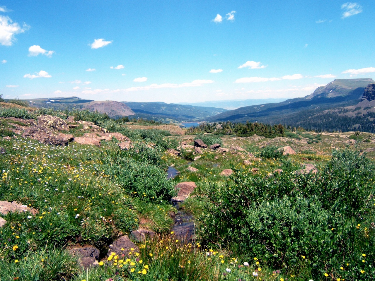 Bear River source in Flat Tops Wilderness, Garfield County, Colorado. Stillwater Reservoir is visible in the ditstance.